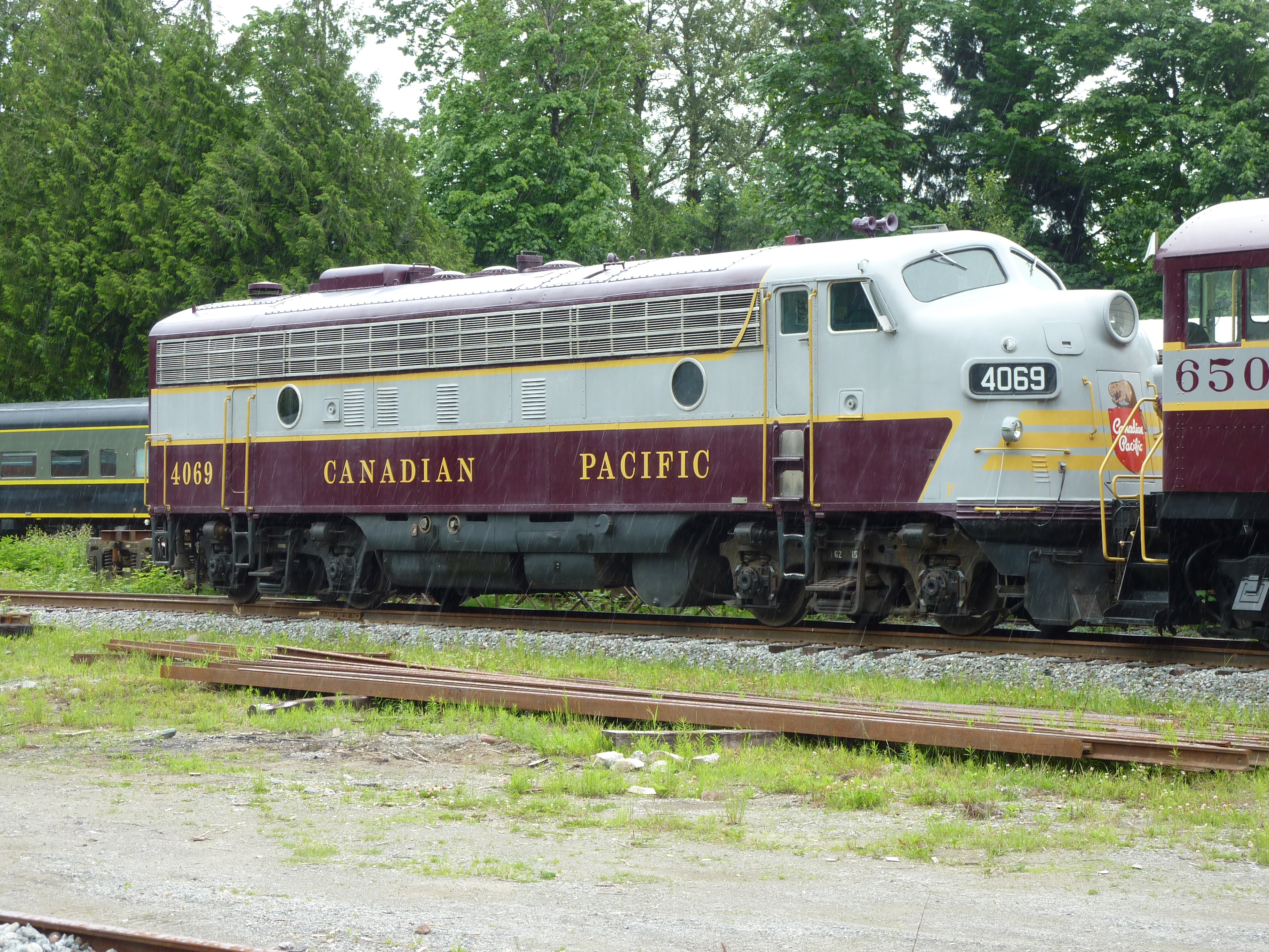 Canadian Pacific Railway diesel locomotive No 4069 at West Coast Railway Heritage Park, in Squamish, BC, Canada